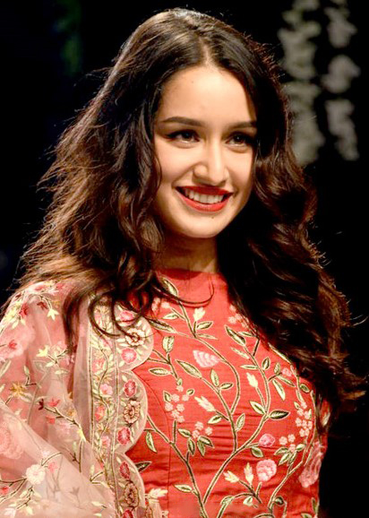 Shraddha Kapoor walks the ramp for Rahul Mishra at Lakme Fashion Week 2017.